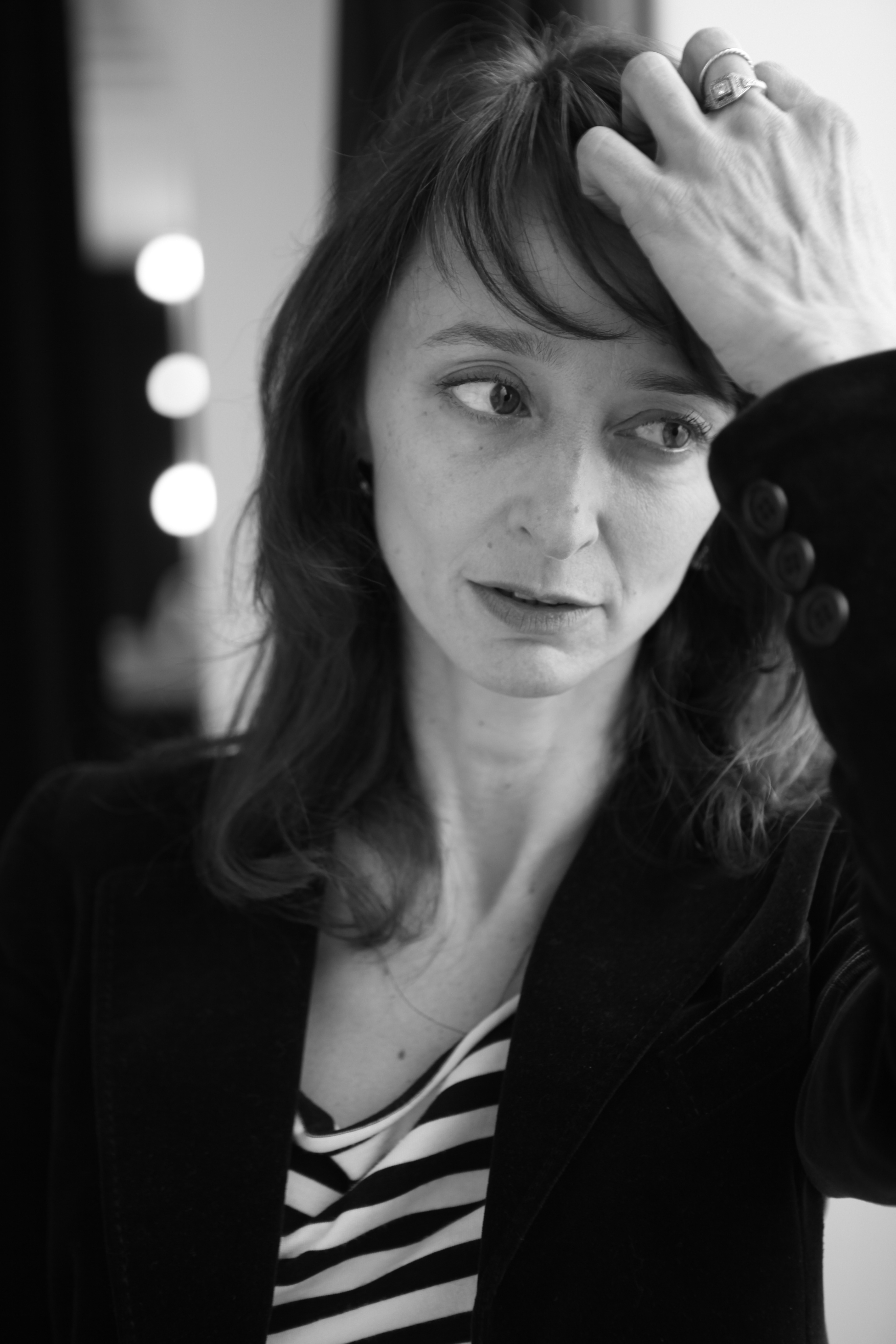 portrait